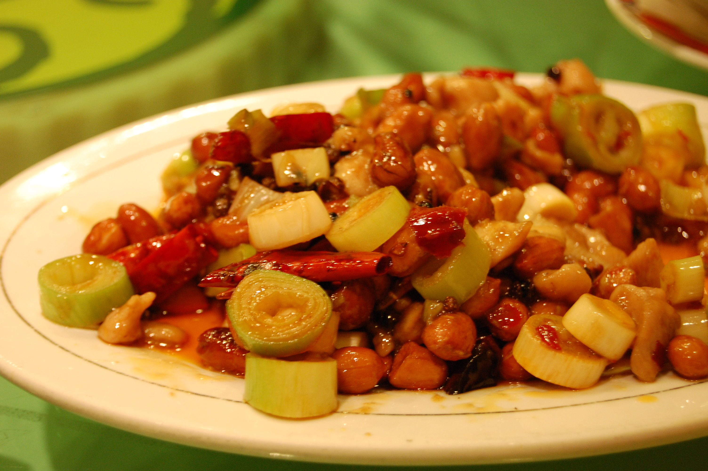 Kung Pao chicken dish served at a Sichuan restaurant in Shanghai. (Although I am not Chinese myself, I have some reason to believe that this is a reasonably authentic version of the dish: the restaurant was recommended to me by a professor originally from Sichuan, and I was accompanied by at least one student from Sichuan who pointed it out specifically as a famous dish.)